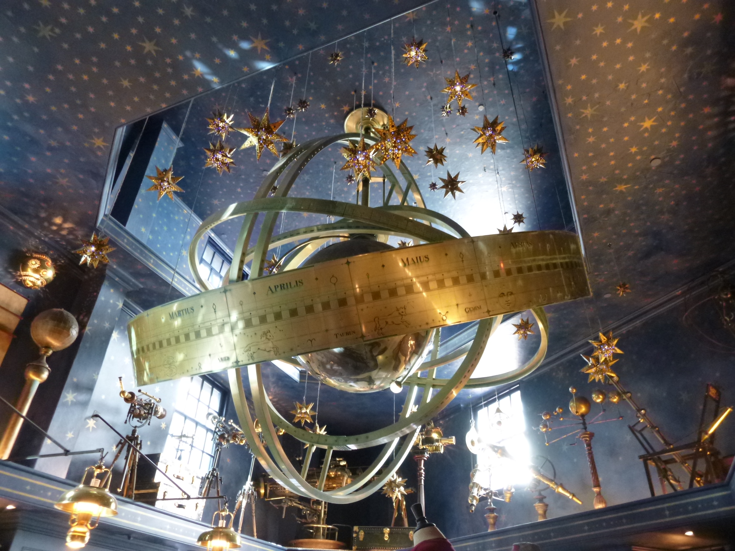 Wiseacre's Wizarding Equipment at Diagon Alley (Universal Studios Florida)